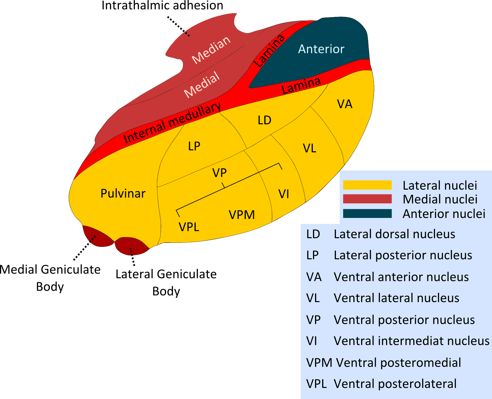 en: Thalamus